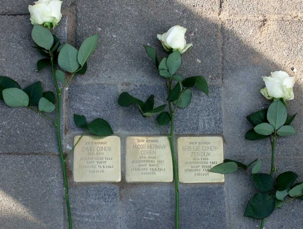 Stolpersteine Family Cohen 07-04-2010 in Tiel/The Netherlands